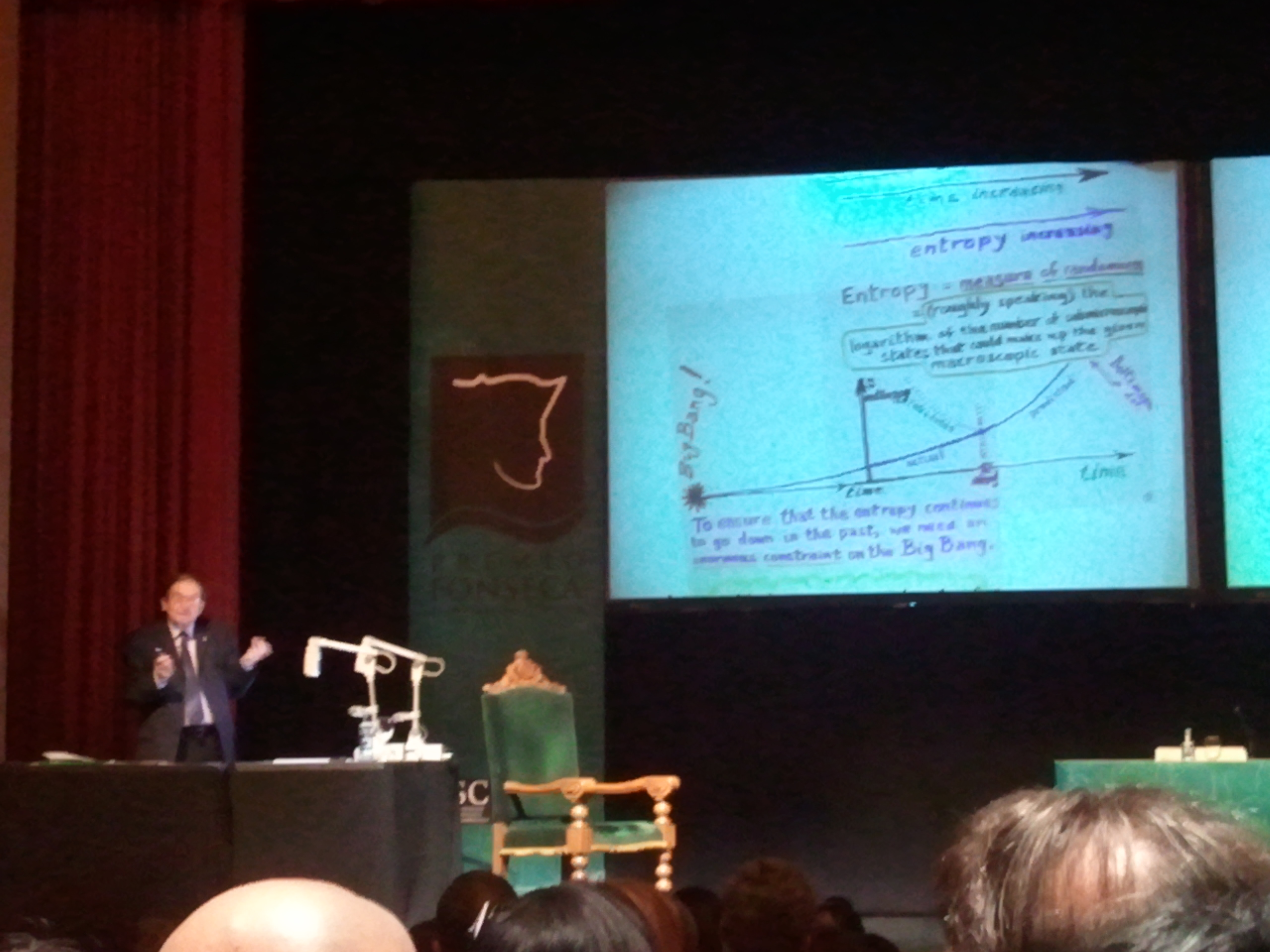 Penrose in University of Santiago de Compostela to pick up the Fonseca prize